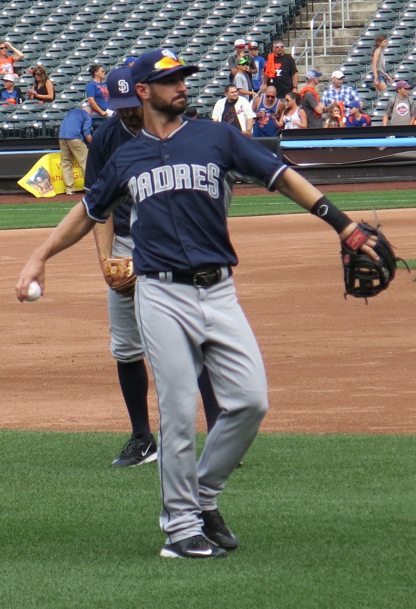 Nick Noonan of the San Diego Padres, August 12, 2016.